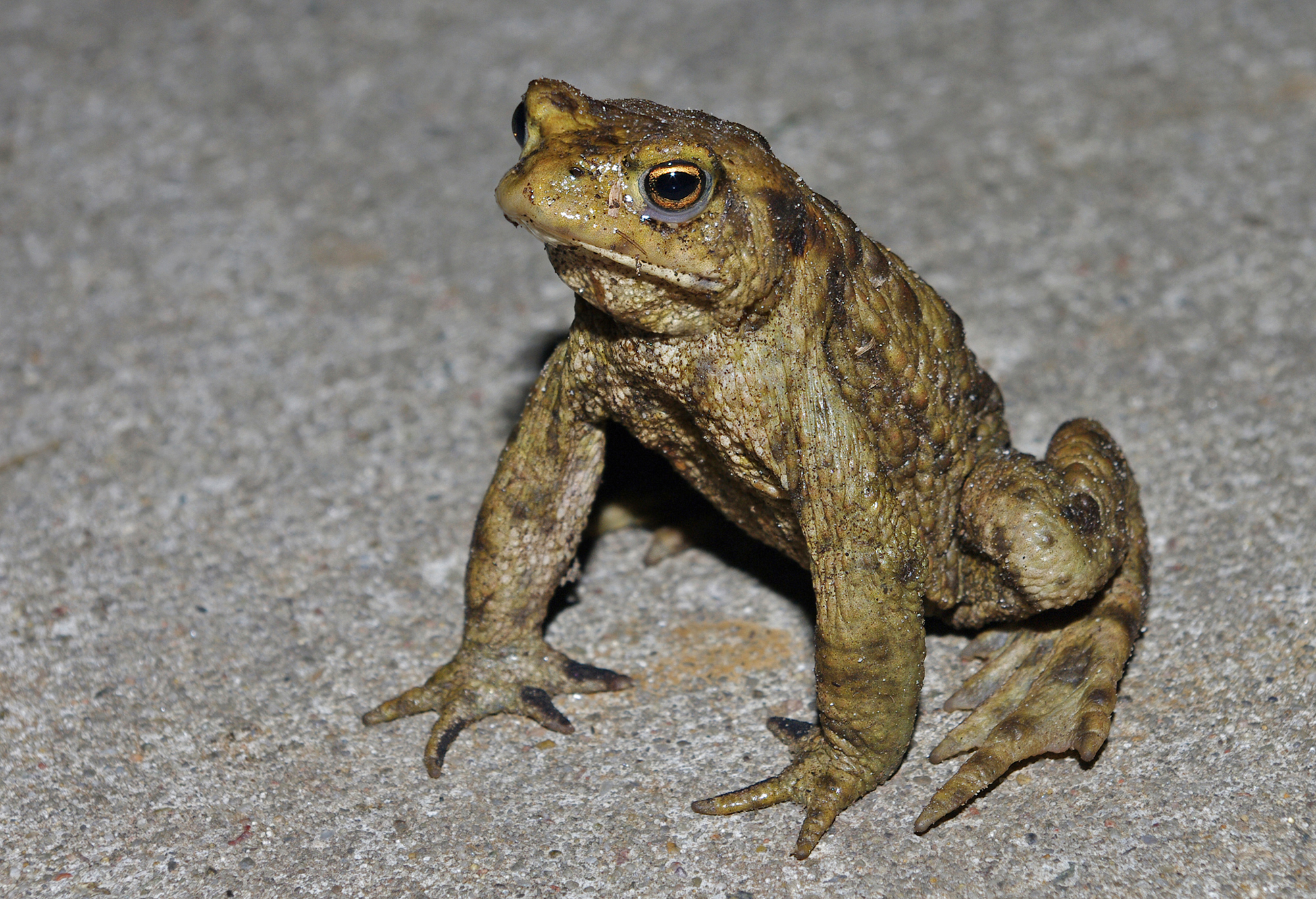 Male Common Toad (Bufo bufo) on a road during spring migration to the spawning waters. The toad has raised on its front legs – looking for a female, that could walk nearby. You can see the blackish nuptial pads on the three inner fingers which help to hold on the female's back during "mating" (amplexus).